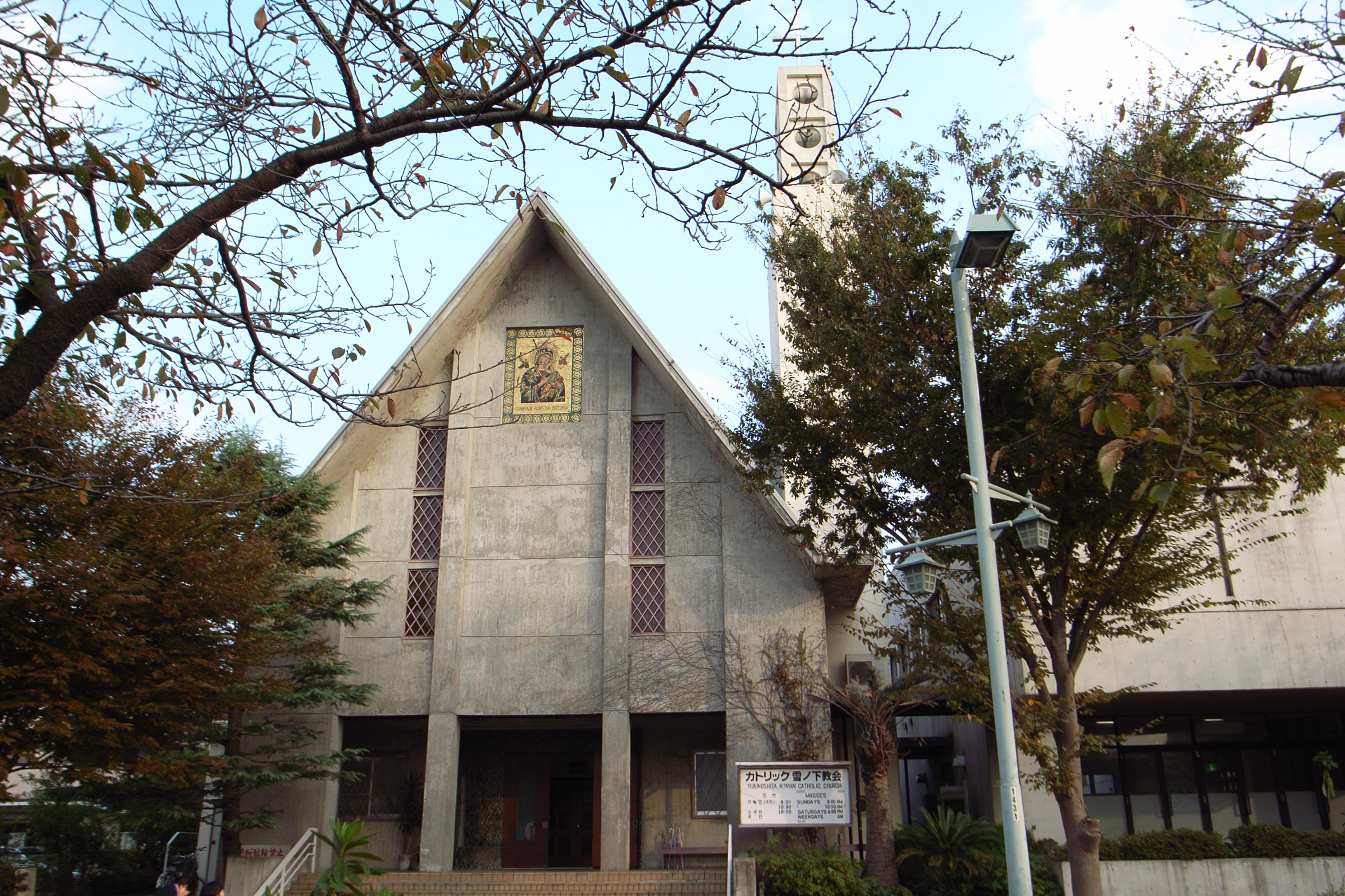 Catholic Yukinoshita Church in Kamakura, Kanagawa pref Japan